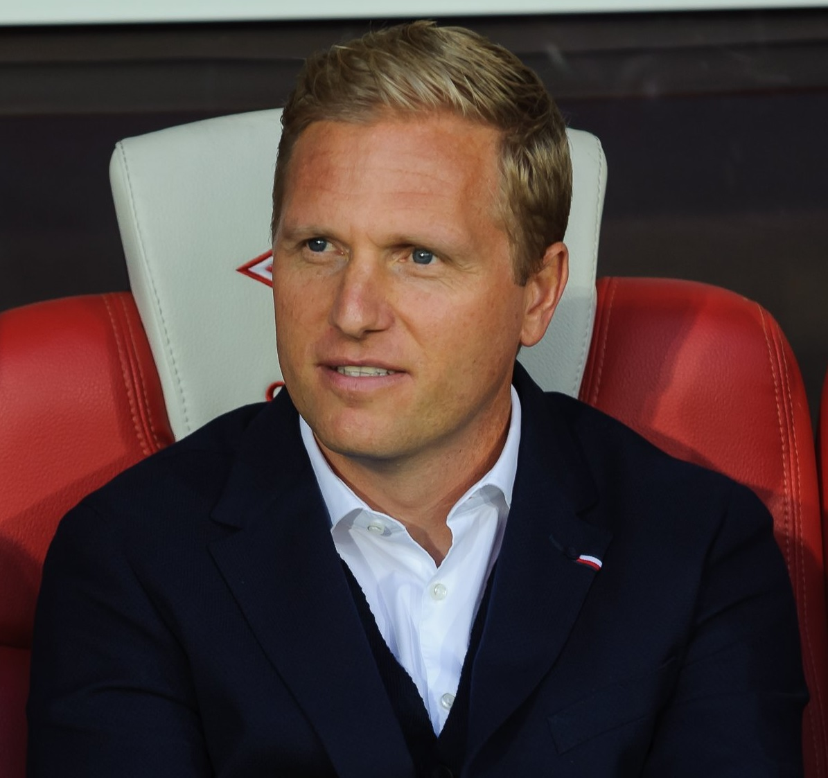 Marc Schneider coaching FC Thun in an Europa League qualifier against FC Spartak Moscow.